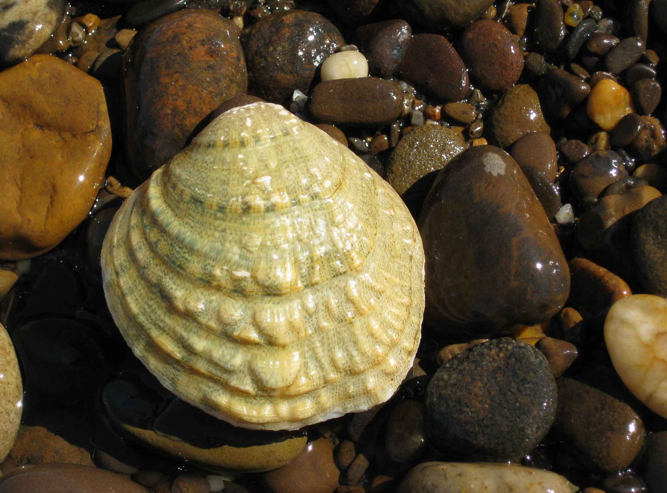 Image title: Cyprogenia stegaria Image from Public domain images website